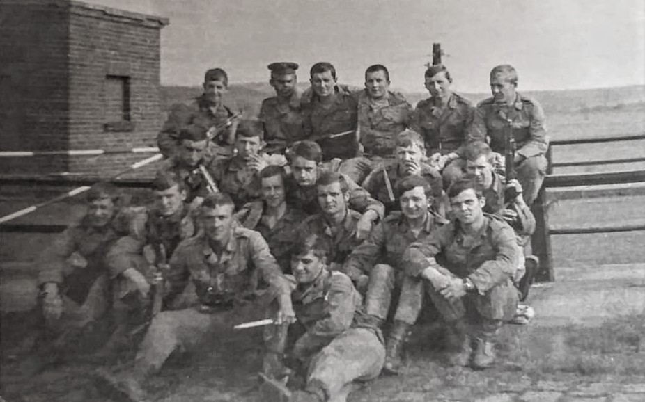 Border Protection Forces in Olszyna